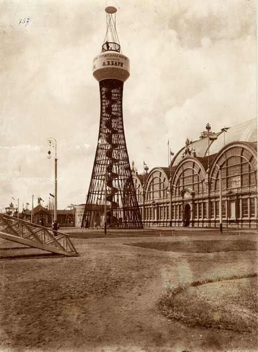 First Shukhov tower built on the XVI All-Russian Exhibition. 1896